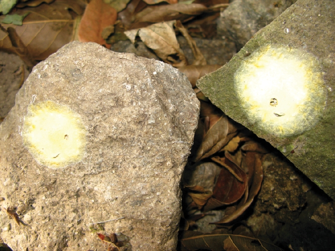 Selenops bifurcatus egg bags